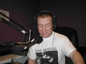 Studio 1 at ACH after a repaint